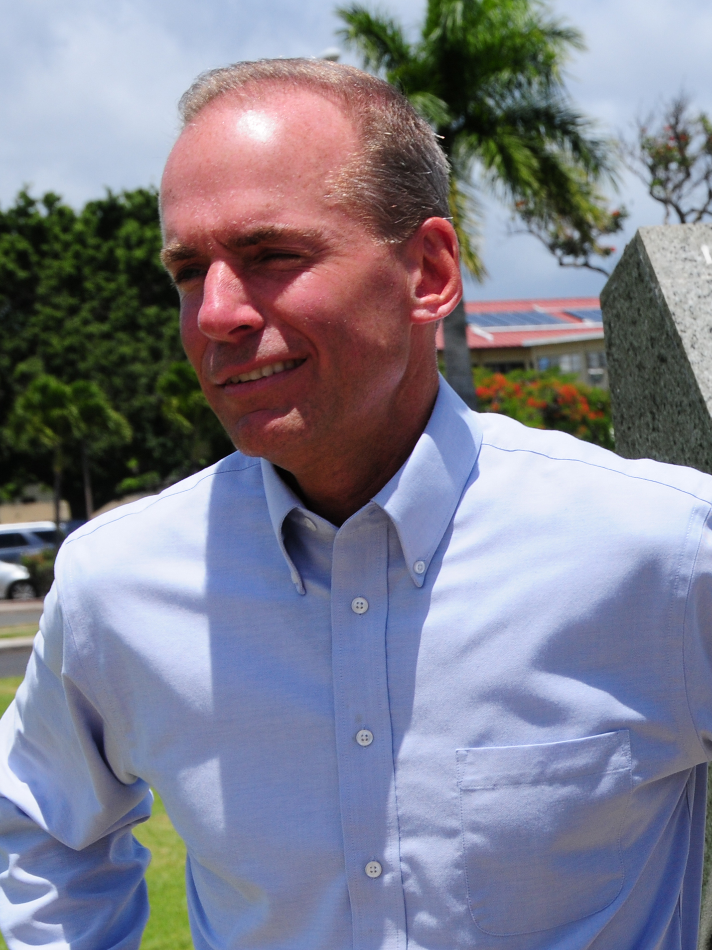 Mr. Dennis Muilenburg, President and Executive Officer of Boeing Defense, Space & Security and Col Braiden Sakai, 154th Wing Commander with the Atterbury circle Memorial Plaque Tribute in the background.